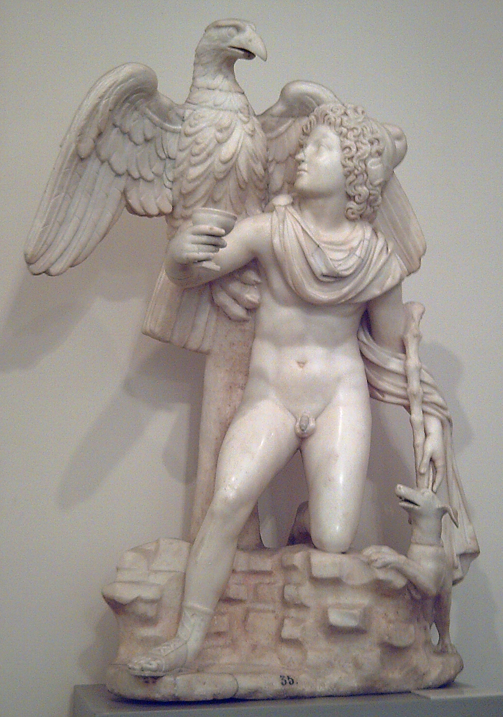 Roman decorative artwork showing Ganymede and Zeus (transformed into an eagle).